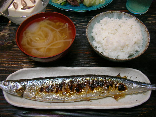 Tradtional style dishes in Japan